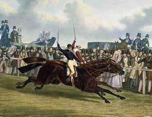 'Charles XII' and 'Euclid', The Decisive Heat for the Great St. Leger Stakes at Doncaster, 1839. Artist dead for over 100 years